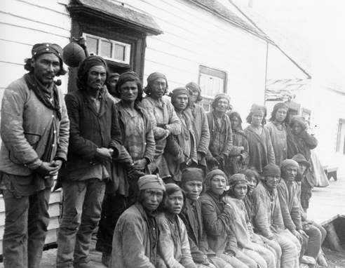 Davis Inlet, August 1903. An early 20th century photograph of Innu traders gathered outside the Hudson's Bay Company post in Davis Inlet, Labrador.